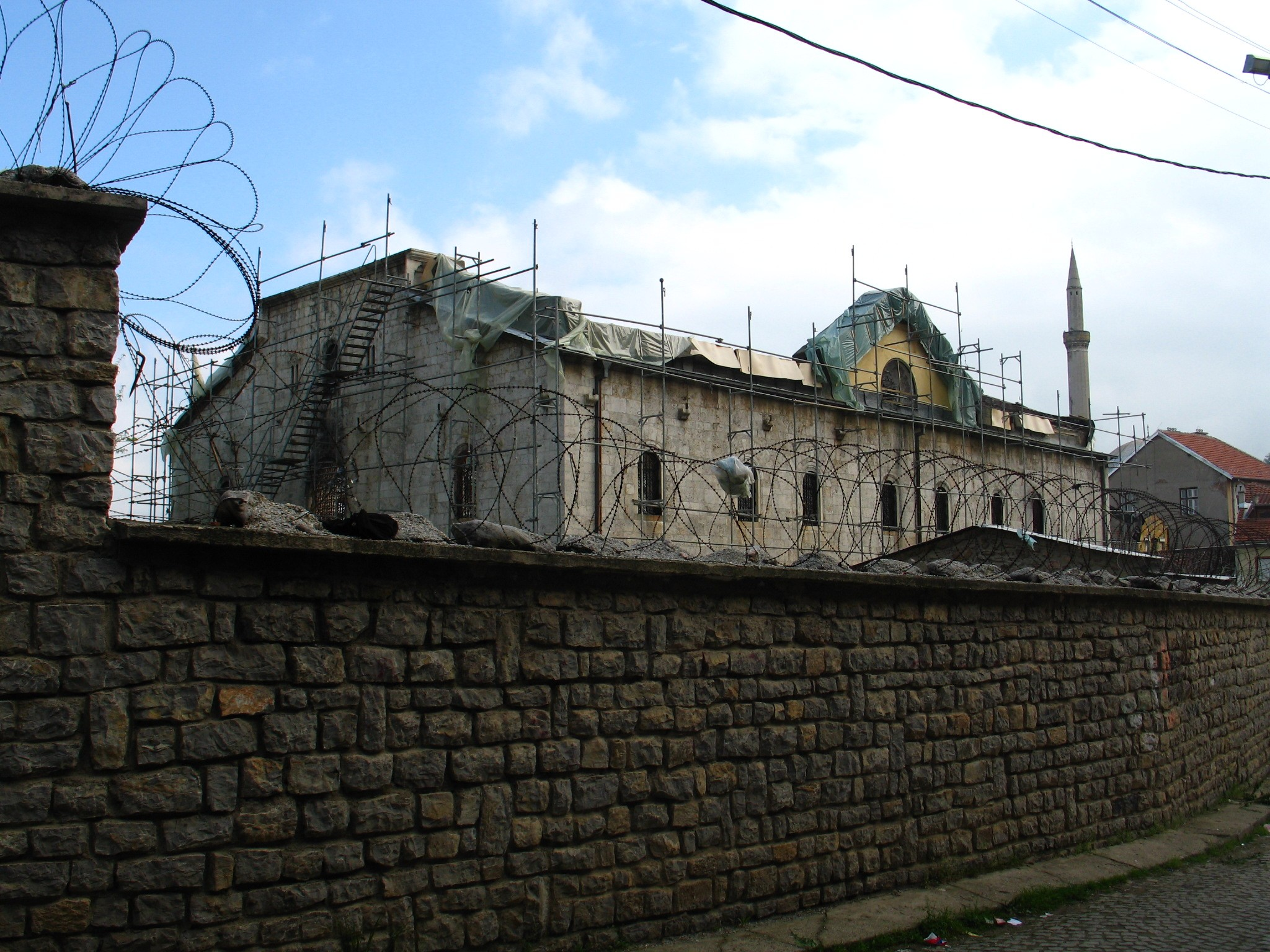 St. George Cathedral under reconstruction after 2004 destruction. Town of Prizren in southern Kosovo